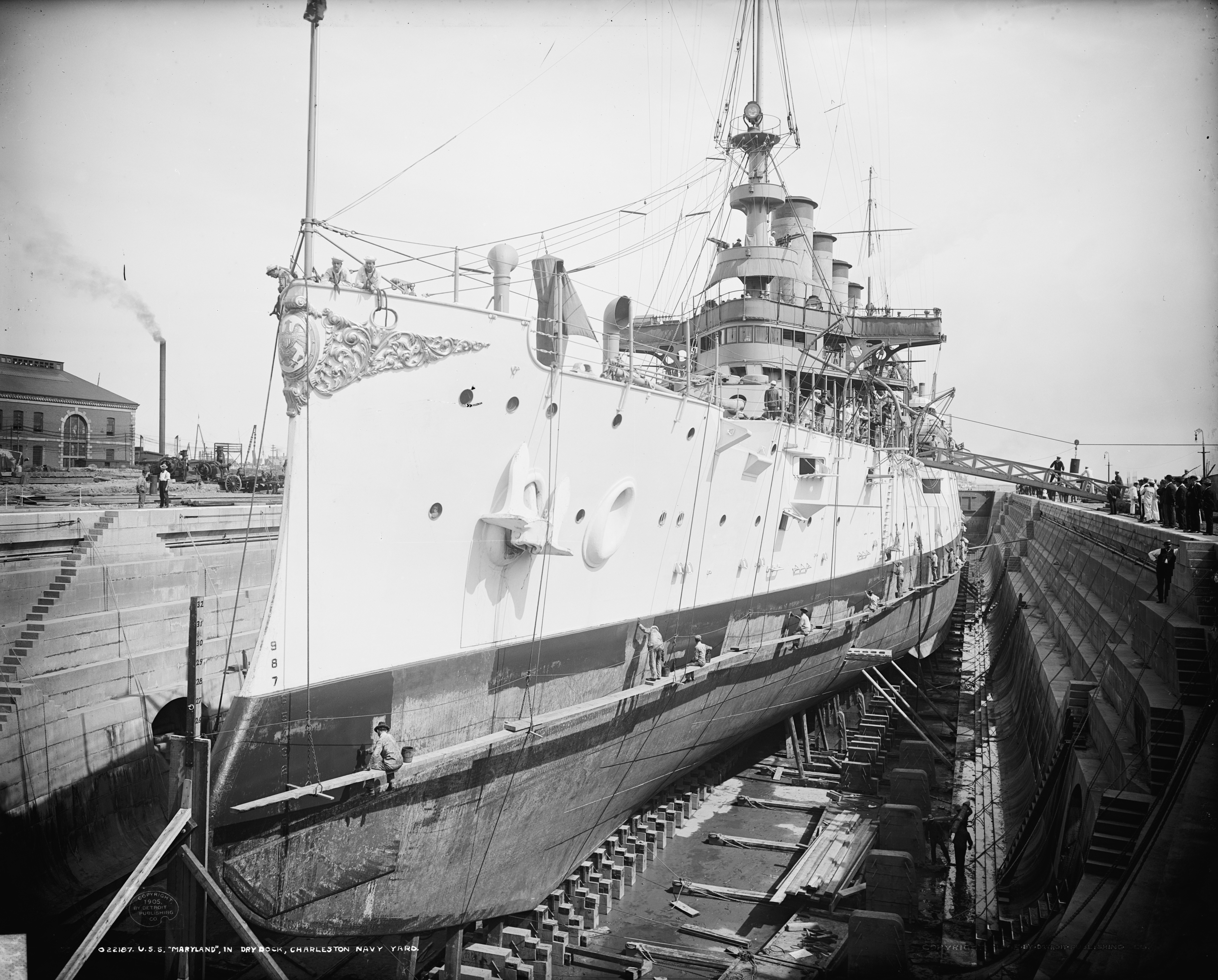 U.S.S. Maryland in dry dock, Charlestown Navy Yard